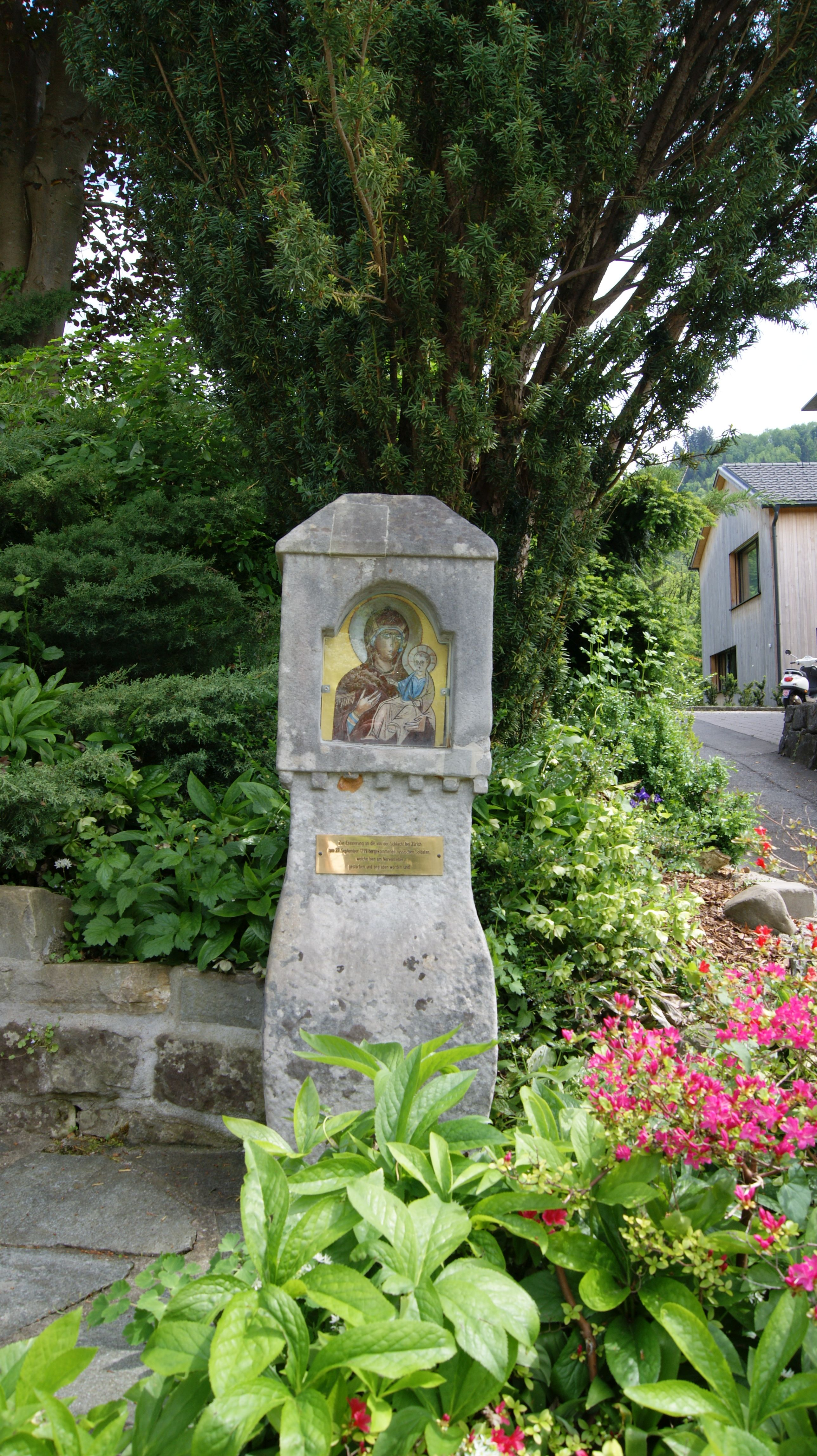 Wayside shrine in Dornbirn, Vorarlberg, Austria. Inscription: "In memory of the battle of Zurich on September 27, 1799, the Russian soldiers, who have been here died at the nerve fever and was buried".